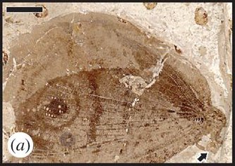 Figure 1: Kalligrammatid structural diversity. Specimens are from the late-Middle Jurassic Jiulongshan Fm. (JIU), China; Late Jurassic Karabastau Fm. (KAR), Kazakhstan; and mid-Early Cretaceous Yixian Fm. (YIX), China (electronic supplementary material, tables S2 and S3). At (a–i) are nine species showing general habitus [11]. Arrows indicate proboscis tips. (a) Kalligramma circularia (JIU) Scale bars: solid, 10 mm; striped, 1 mm.